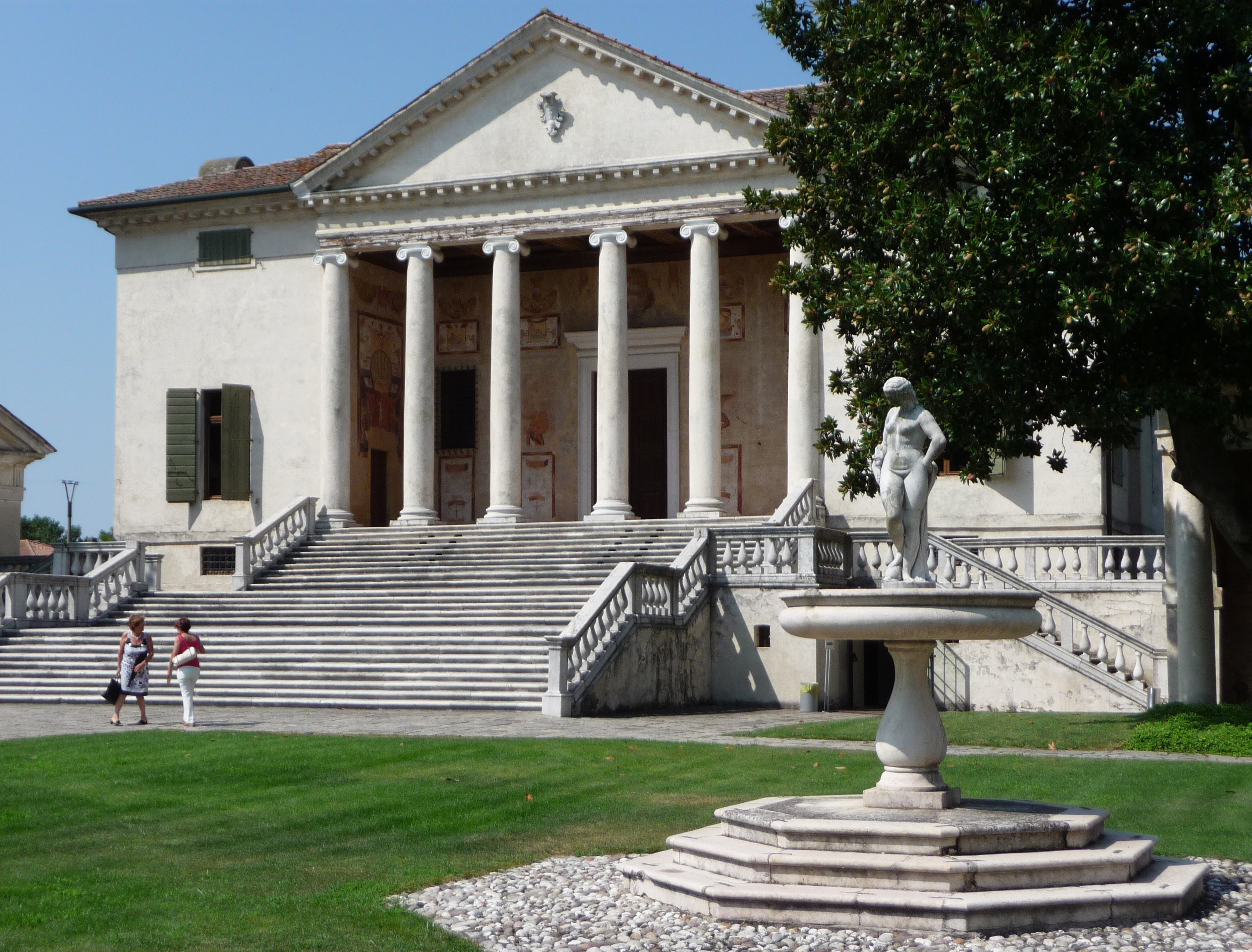 Villa Badoer in Fratta Polesine, province of Rovigo, Italy, designed by Andrea Palladio in 1554 and built 1556-1563.